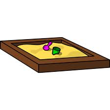 Sandbox with green bucket and a pink shovel